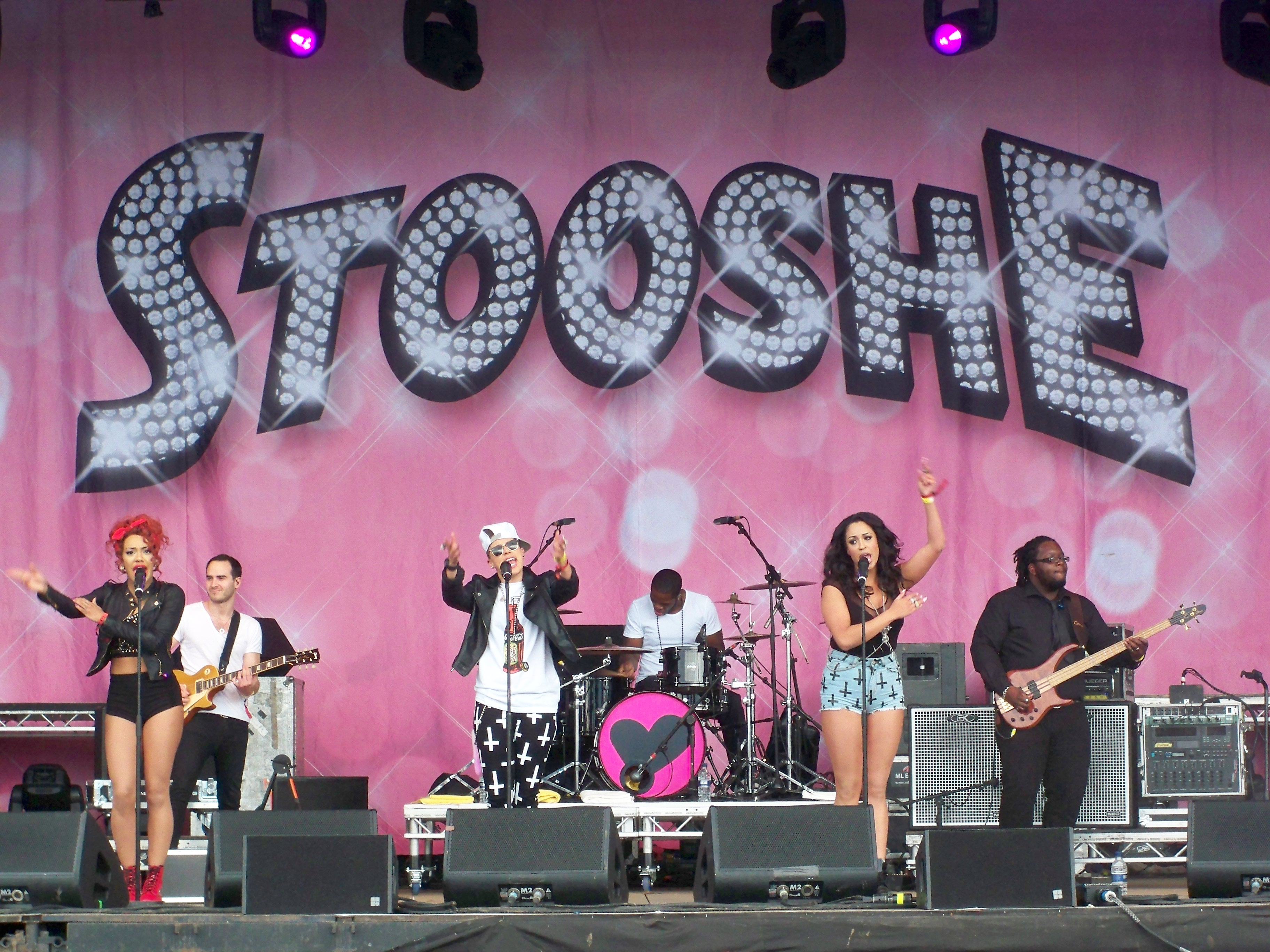 Stooshe, live onstage at Guilfest 2012.